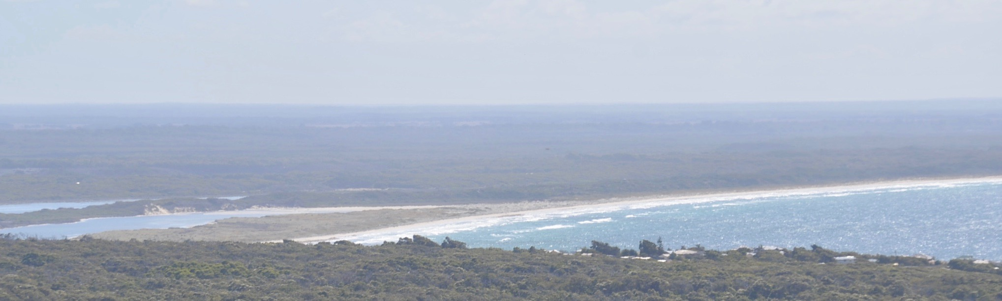 Flinders Bay - Blackwood River to the left of photo